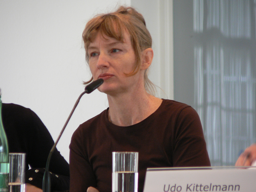 Canadian artist Janet Cardiff as a panelist at Hamburger Bahnhof in Berlin, March 2009.